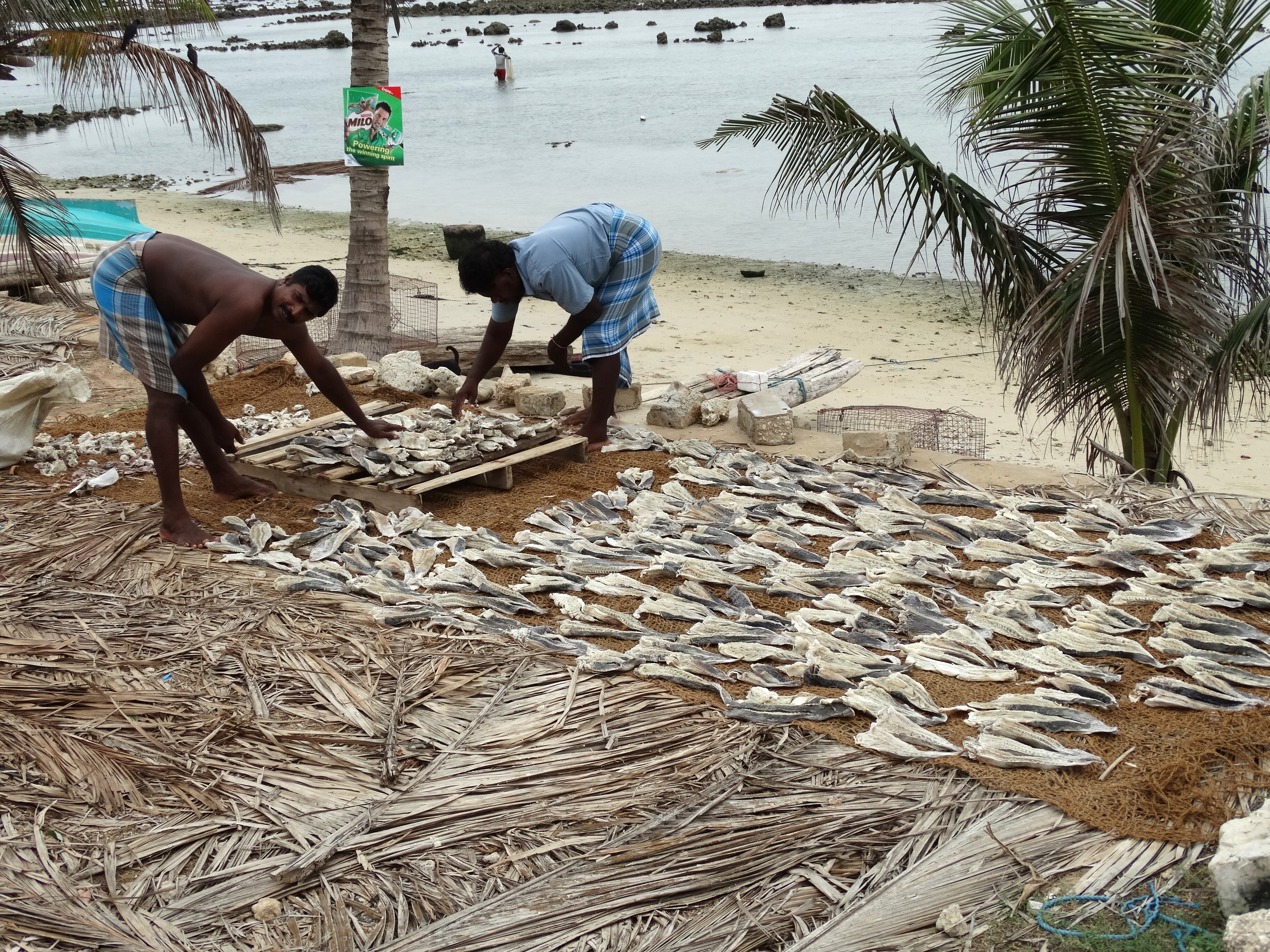 Men with Drying Fish - Point Pedro - Jaffna Peninsula - Sri Lanka